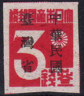 Japanease postage stamps with overprint,reading"Rep.of China Taiwan" temporary Issue.